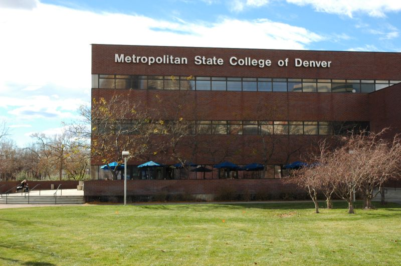 Brett Bouwer, picture of Metropolitan State College of Denver.